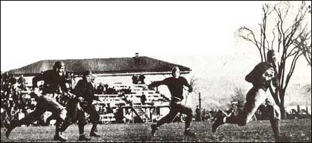 Knute Rocke of Notre Dame after catching a forward pass against Army